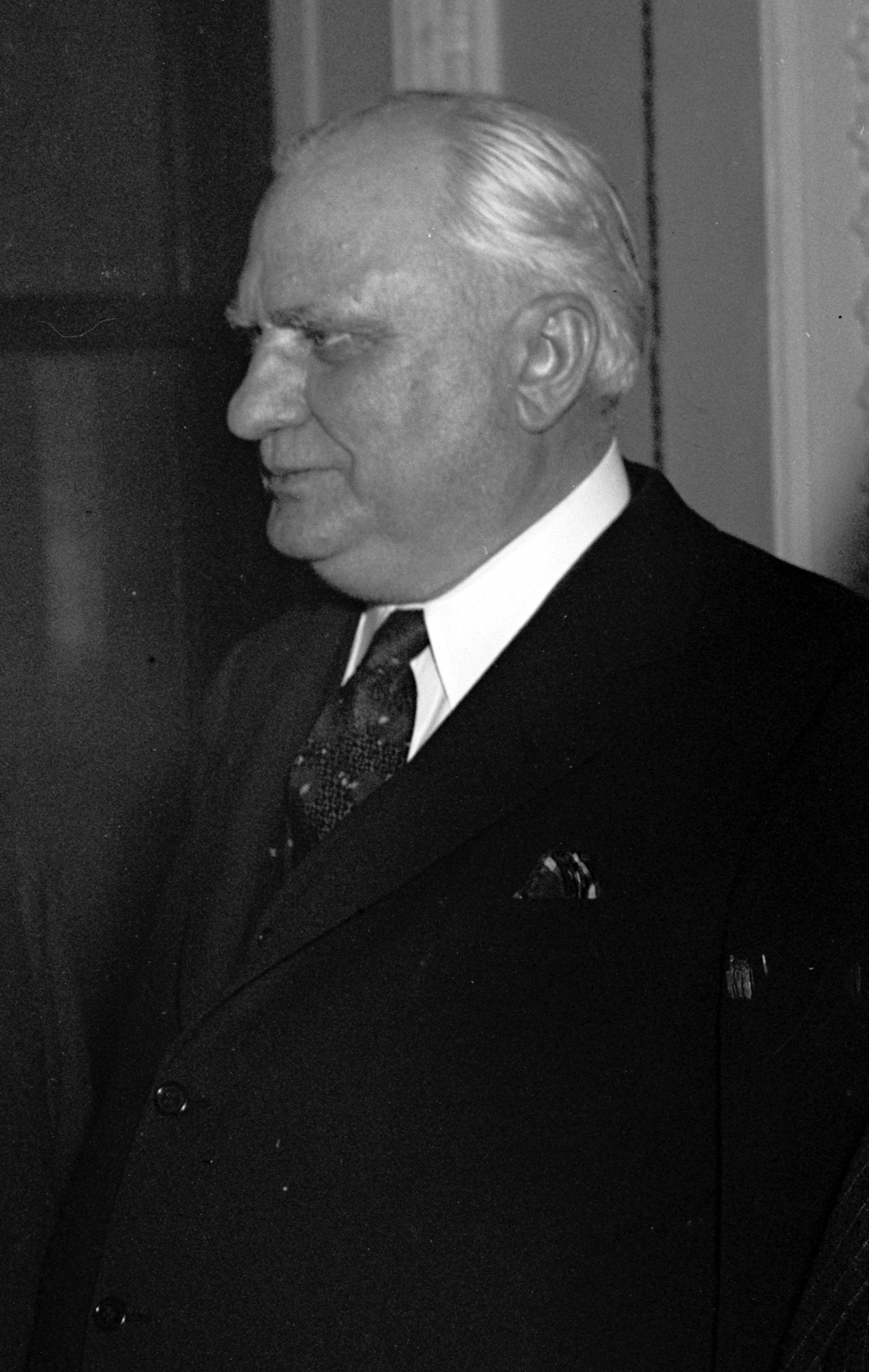 William H. Dieterich, US Senator from Illinois